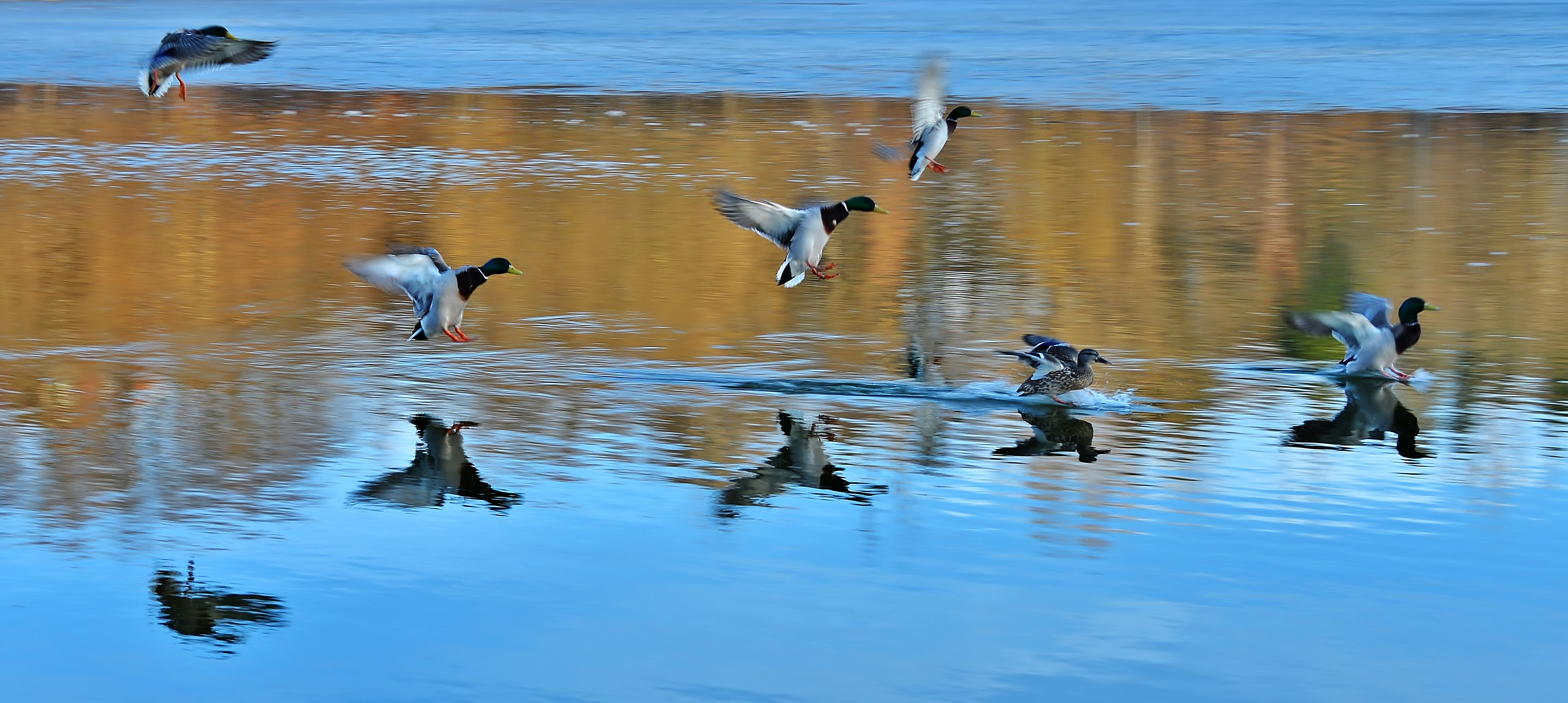 Mallards (Anas platyrhynchos) landing on the Topham Pond in Toronto